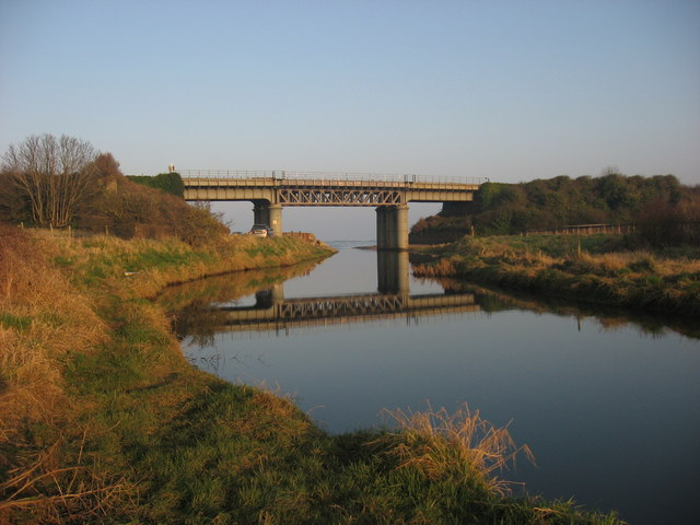 Railway bridge at Gormanston. Built 1910 for the Great Northern Railway (Ireland) by the Cleveland Bridge & Engineering Company. The Delvin River is the boundary between counties Meath, to left in photo, and Dublin.